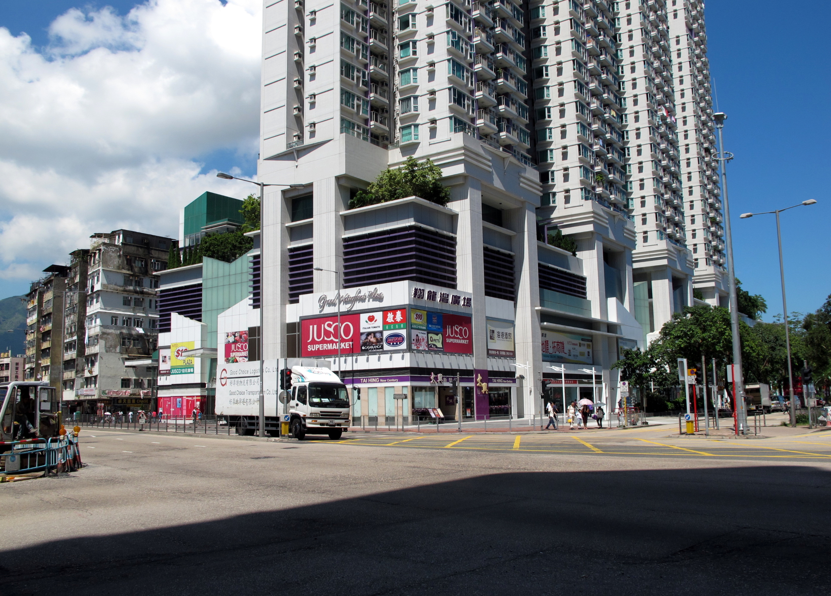 Grand Waterfront